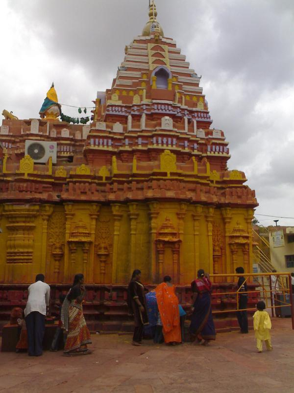 Savadatti Renuka temple Manjuanth Doddamani, Gajendragad / Hubli, Karnataka(North), India